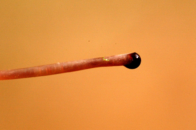 Mycena sanguinolenta from Commanster, Belgium. The determination of the species shown in this picture has been verified.